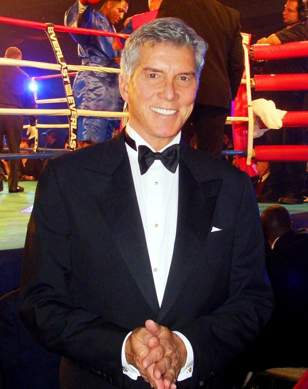 Michael Buffer at Fight for Children Charity event in Washington DC.